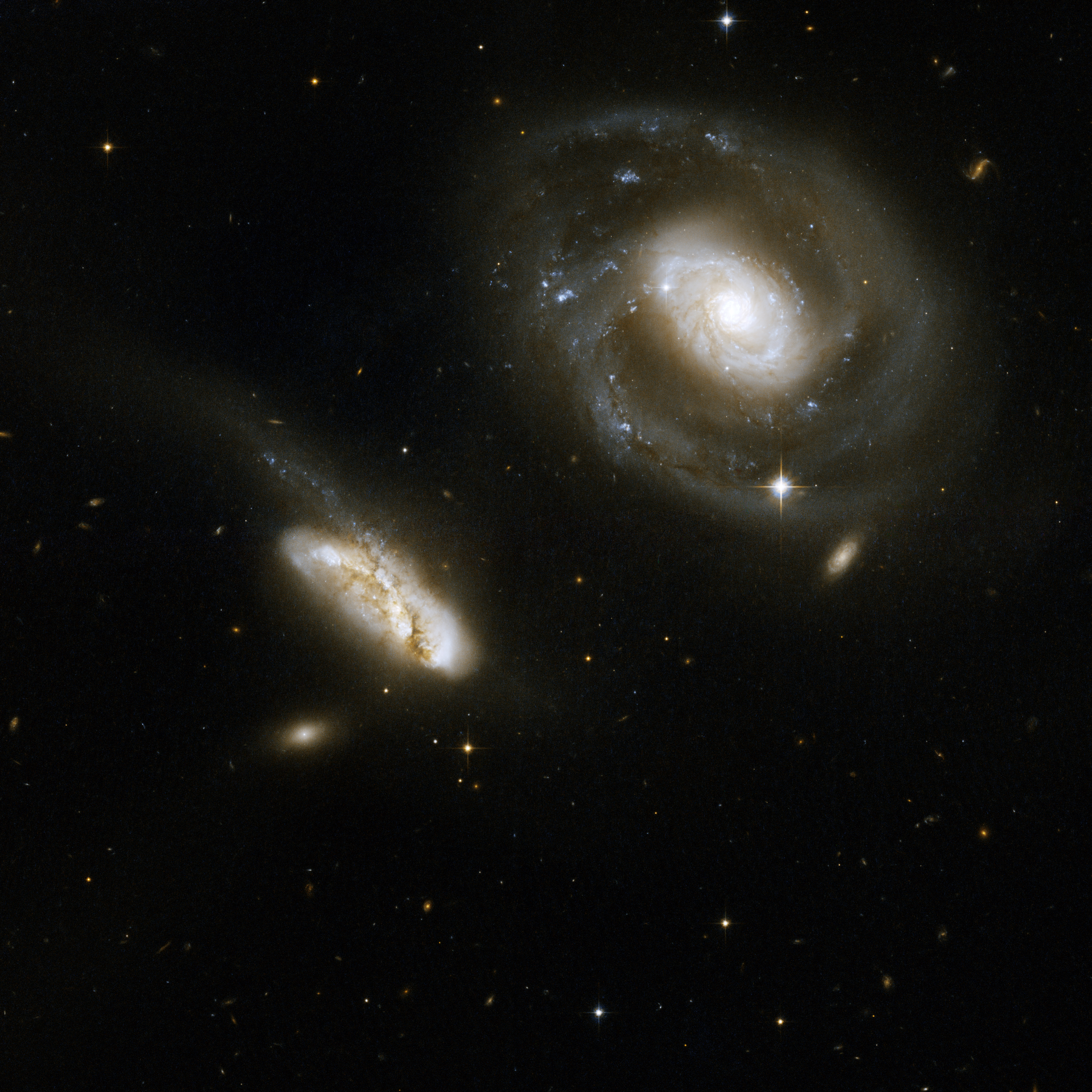 This is a stunning pair of interacting galaxies, the barred spiral Seyfert 1 galaxy NGC 7469 (Arp 298, Mrk 1514), a luminous infrared source with a powerful starburst deeply embedded into its circumnuclear region, and its smaller companion IC 5283. This system is located about 200 million light-years away from Earth in the constellation of Pegasus, the Winged Horse. This image is part of a large collection of 59 images of merging galaxies taken by the Hubble Space Telescope and released on the occasion of its 18th anniversary on 24th April 2008. About the objectObject nameNGC 7469, QSO J2303+0852, Arp 298, Mrk 1514, IC 5283, KPG 575AObject descriptionInteracting GalaxiesPosition (J2000)23 03 16.92 +08 53 06.4ConstellationPegasusDistance200 million light-years (50 million parsecs)About the dataData descriptionThe Hubble image was created using HST data from proposal 10592: A. Evans (University of Virginia, Charlottesville/NRAO/Stony Brook University)InstrumentACS/WFCExposure date(s)June 11, 2002Exposure time33 minutesFiltersF435W (B) and F814W (I)